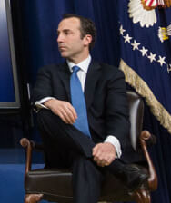 Reed Cordish, Assistant to the President for Intragovernmental and Technology Initiatives, during a Q&A with U.S. President Donald Trump on Tuesday, April 4, 2017, during the CEO Town Hall on Unleashing American Business hosted by “The White House Office of American Innovation” in the EEOB South Court Auditorium of the White House in Washington, D.C.